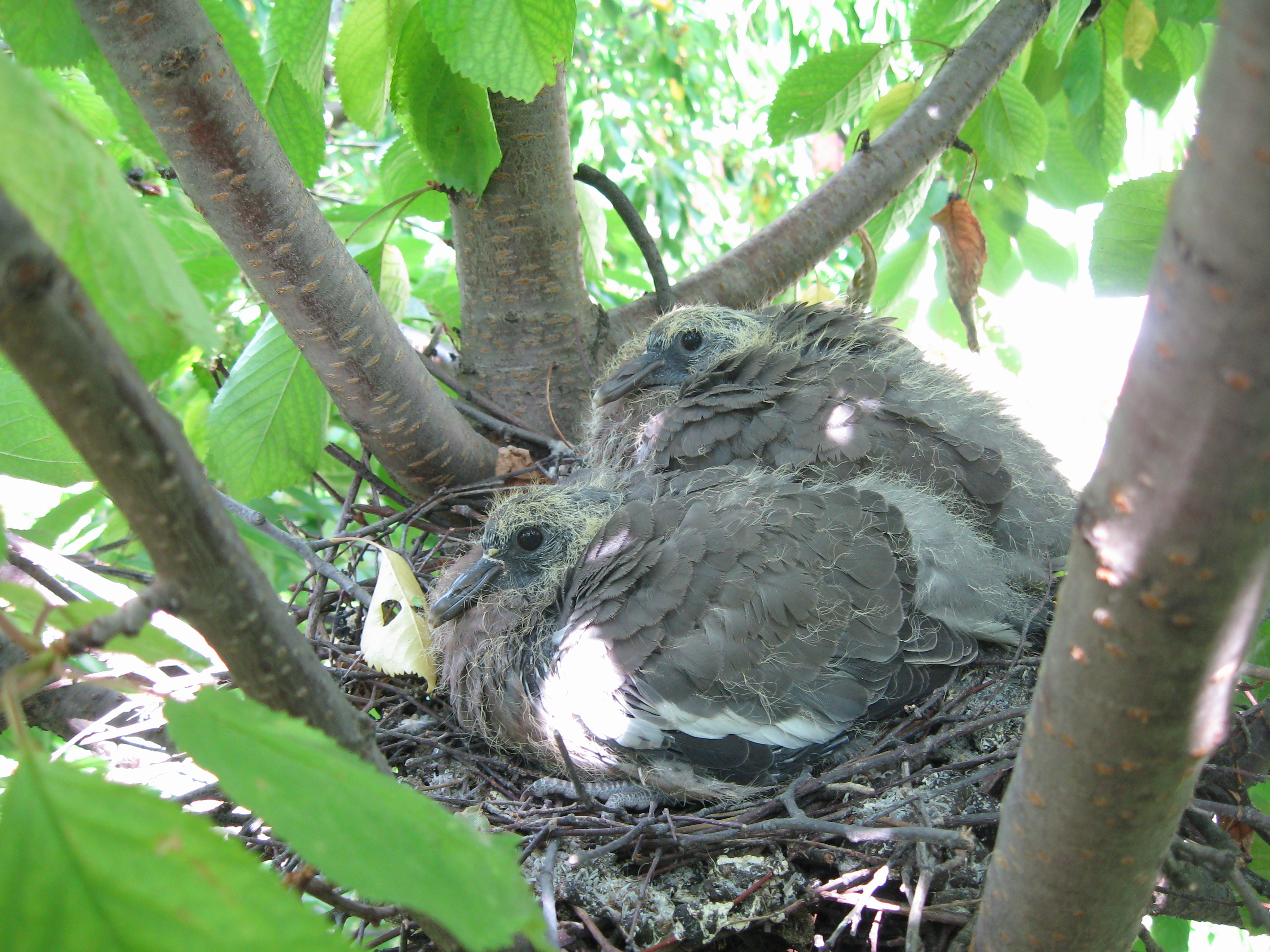 Nestlings of the Wood Pigeon (Columba palumbus). (Vinnitsa/Ukraine)